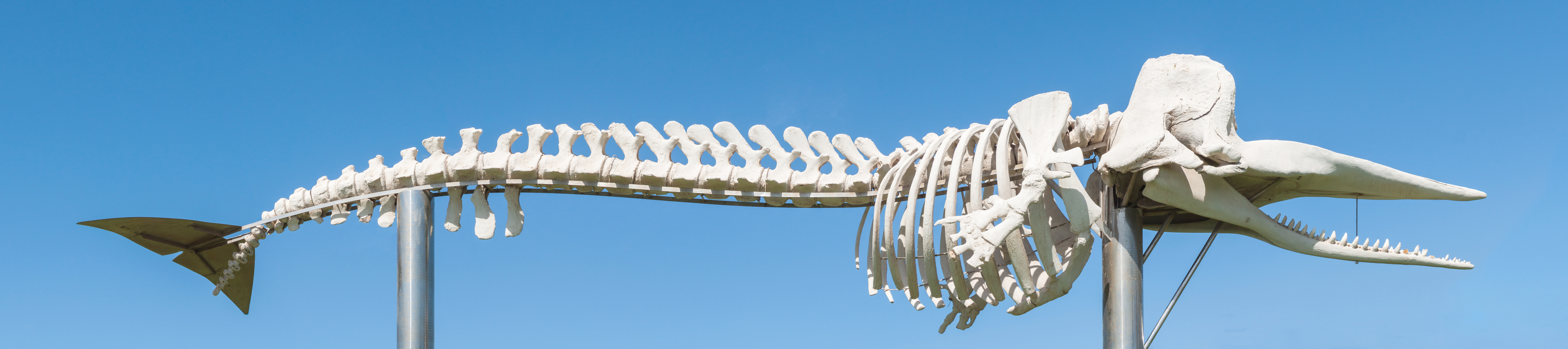 Physeter macrocephalus, Sperm Whale, skeleton; Morro Jable, Jandía, Fuerteventura, Canary Islands, Spain.